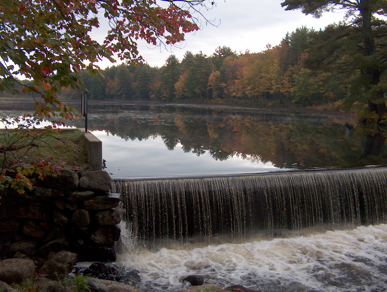 Cass Pond Dam on the Little Suncook River, Epsom, New Hampshire. Photo by Ken Gallager, October 3, 2008.